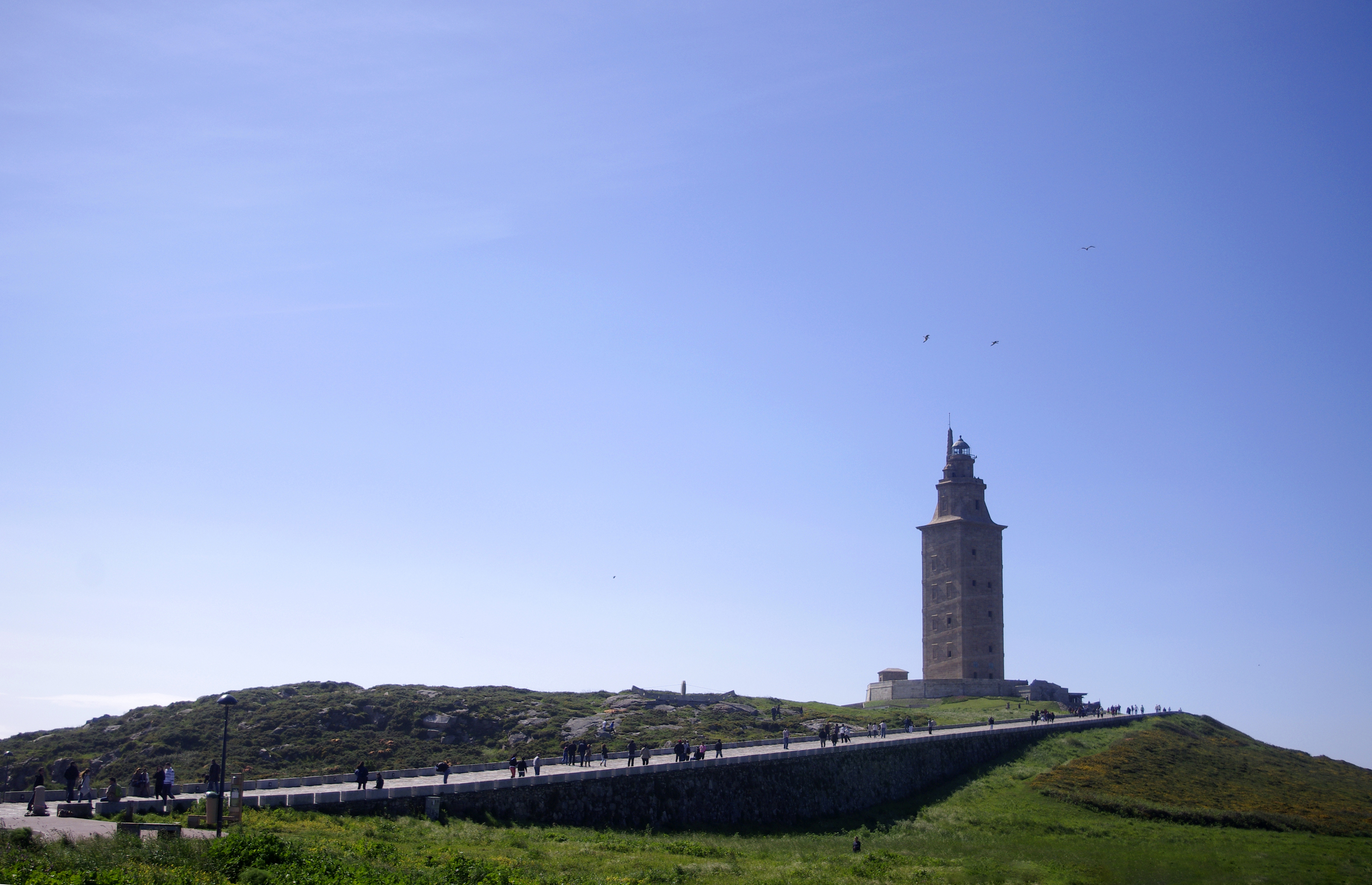 Almost 1900 years old and rehabilitated in 1791, is the oldest Roman lighthouse in use today. It is a National Monument of Spain, and since June 27, 2009, has been a UNESCO World Heritage Site. It is the second tallest lighthouse in Spain